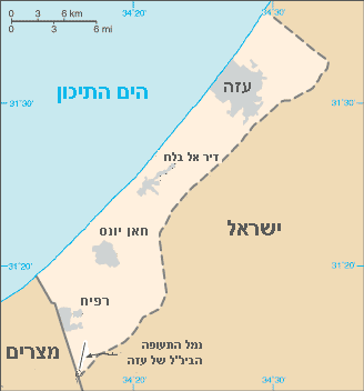 Gaza Strip. Translated from Gz-map.png